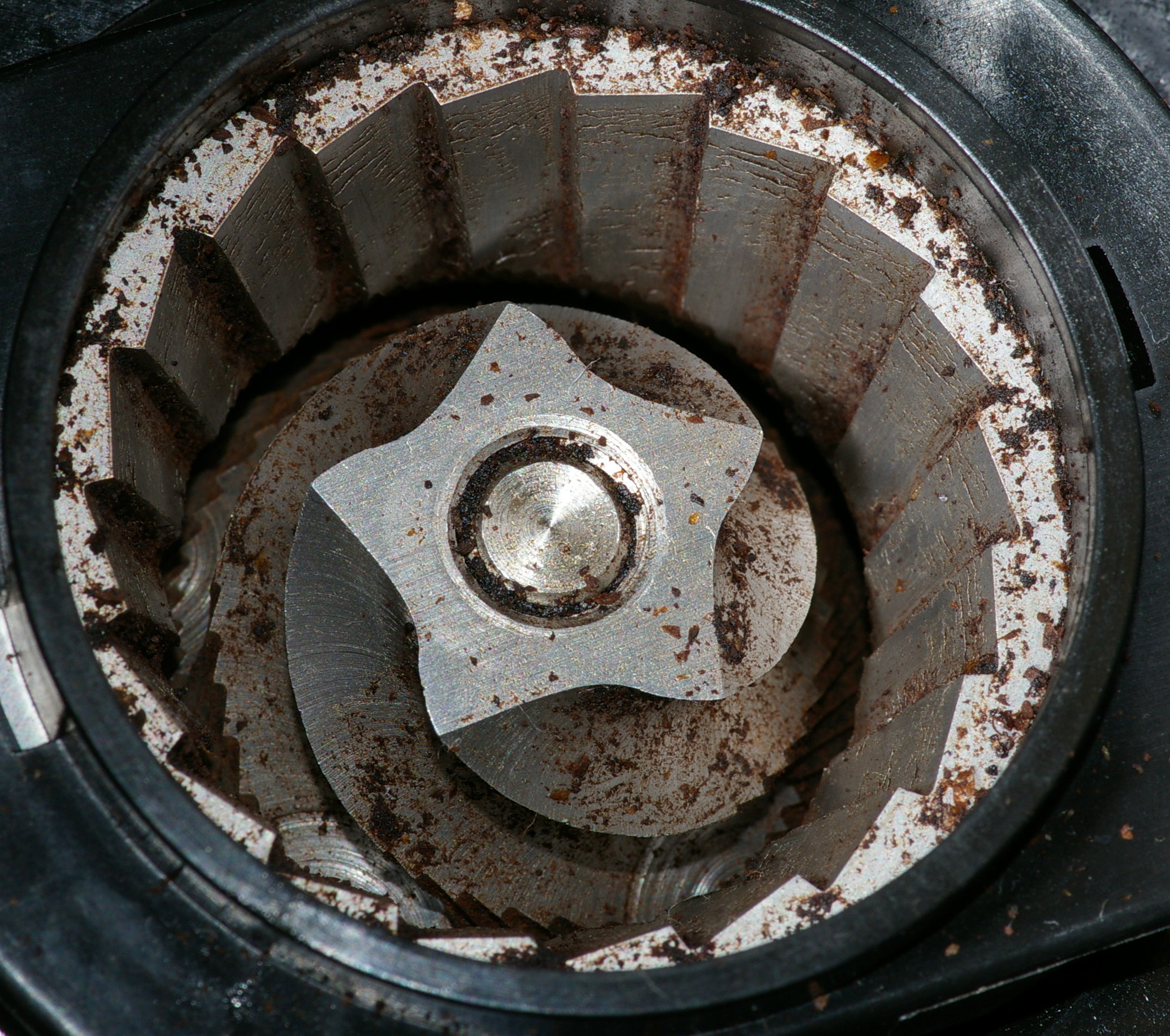 A detail view of a coffee burr grinder. The bean hopper has been removed, which would be immediately above this grinder